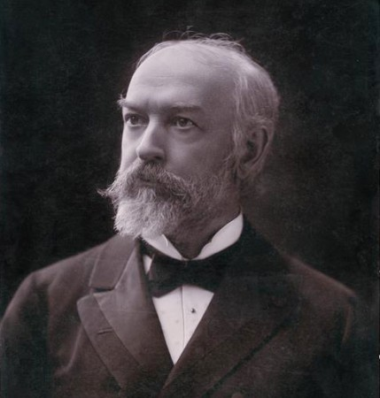 František Adolf Šubert